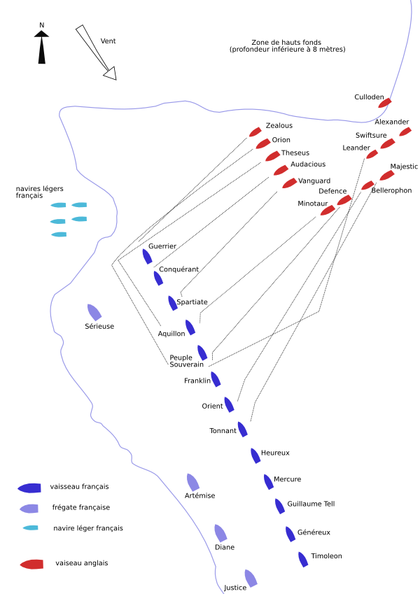 map of battle of Nile in 1798